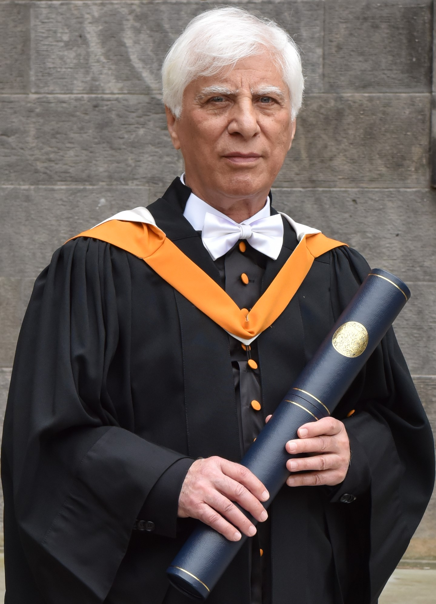 Bahram Beyzaie wearing the graduation academic gown of the University of St Andrews, 22 June 2017.